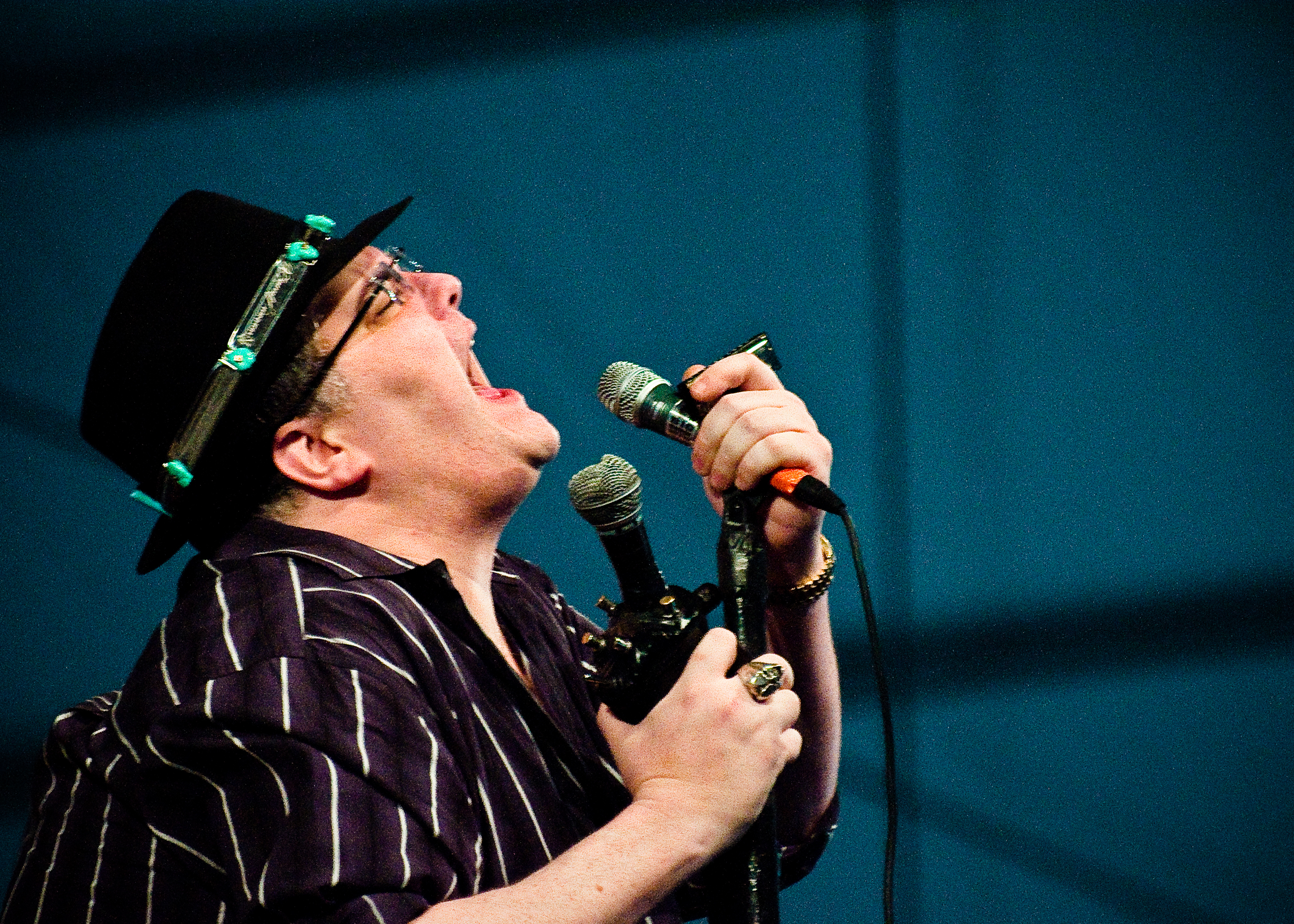 John Popper - Blues Traveler. At New Orleans Jazz Fest.